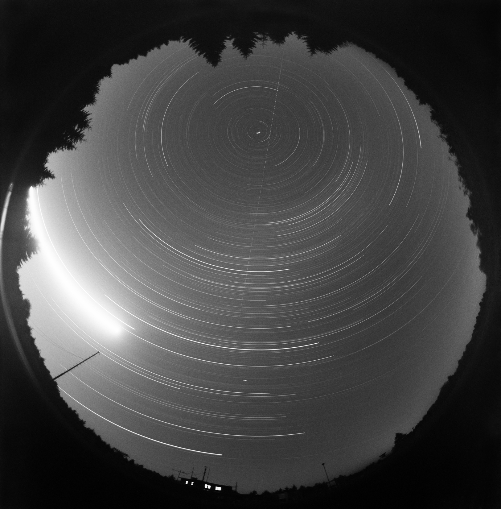 Scanned photograph of the bolide EN131090, originally captured on a glass photographic plate. The Earth-grazing meteoroid flew above Czechoslovakia and Poland on 13 October 1990 and left to space again. It was taken by an all-sky camera equipped with a fish-eye objective Zeiss Distagon 3.5/30mm located at the hydrometeorological station at Červená hora, Czechoslovakia (now in the Czech Republic). The bolide travels from the south to the north and its track is interrupted by a shutter rotating 12.5 times per second, which allows to determine its speed. The thick bright light track on the left is the Moon.